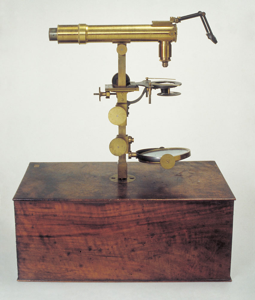 Author Giovan Battista AmiciDescription